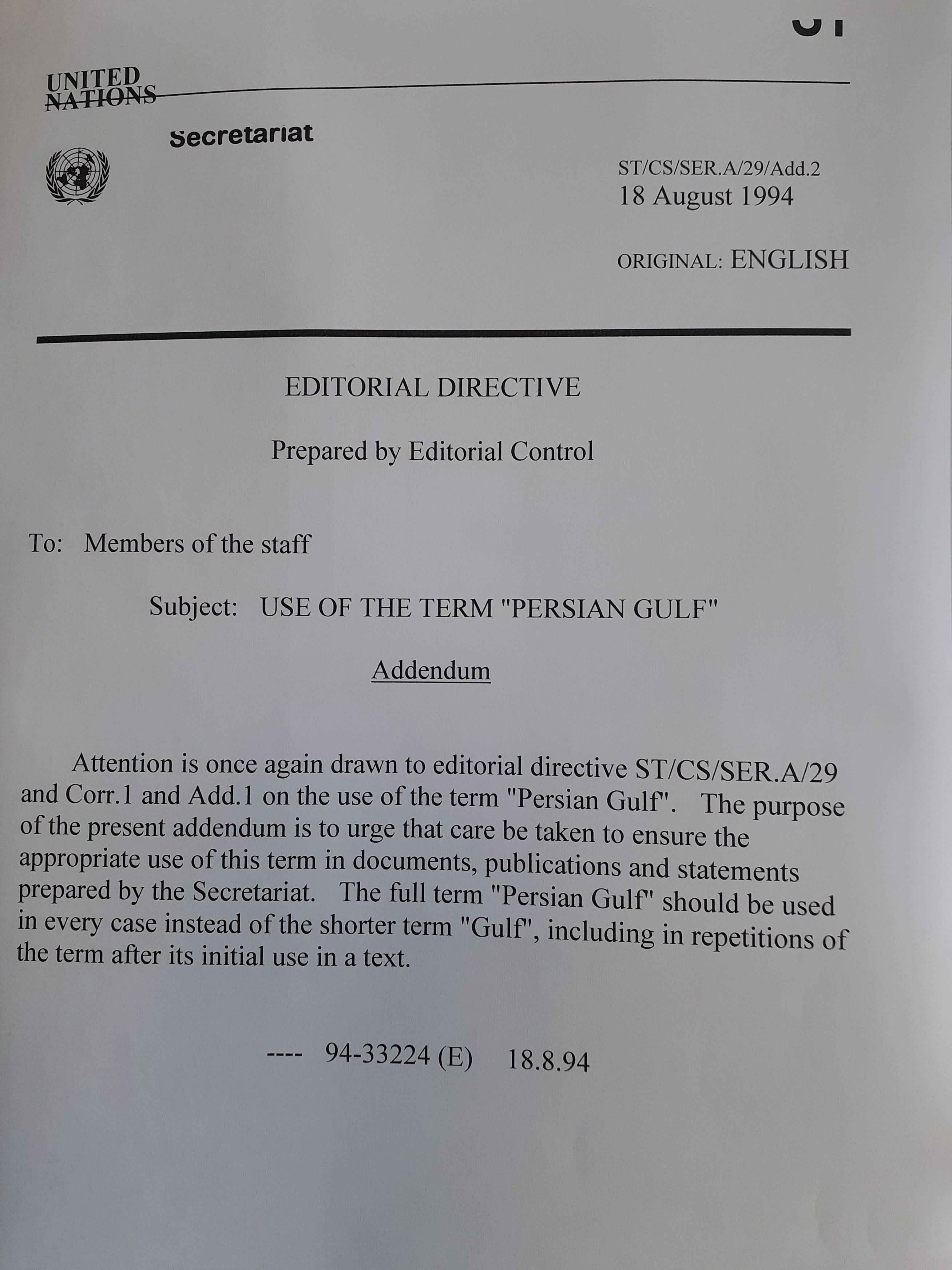 UN 1994 PERSIAN.GULF. DIRECTIVE